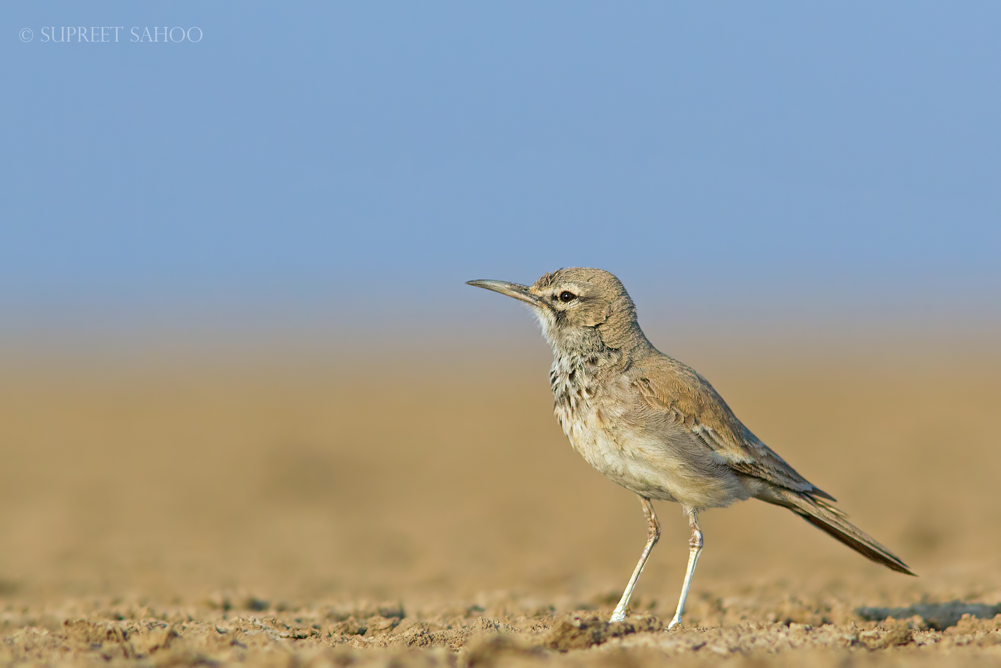 A very skittish Greater hoopoe-lark from Kutch region in India